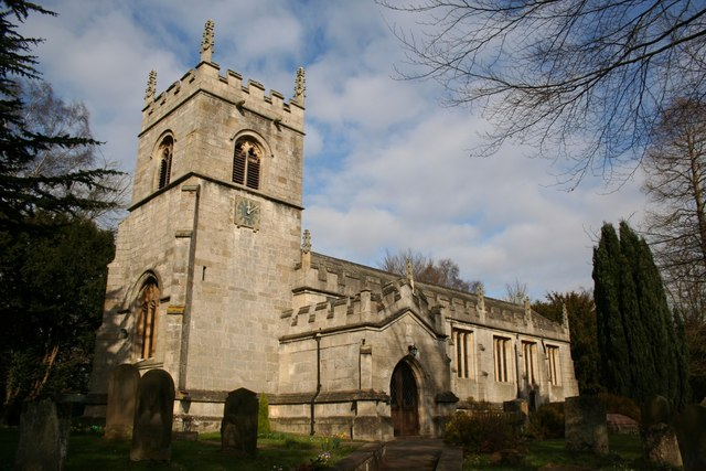 All Saints' church Crenellated Perpendicular church tucked away in the Hall parkland